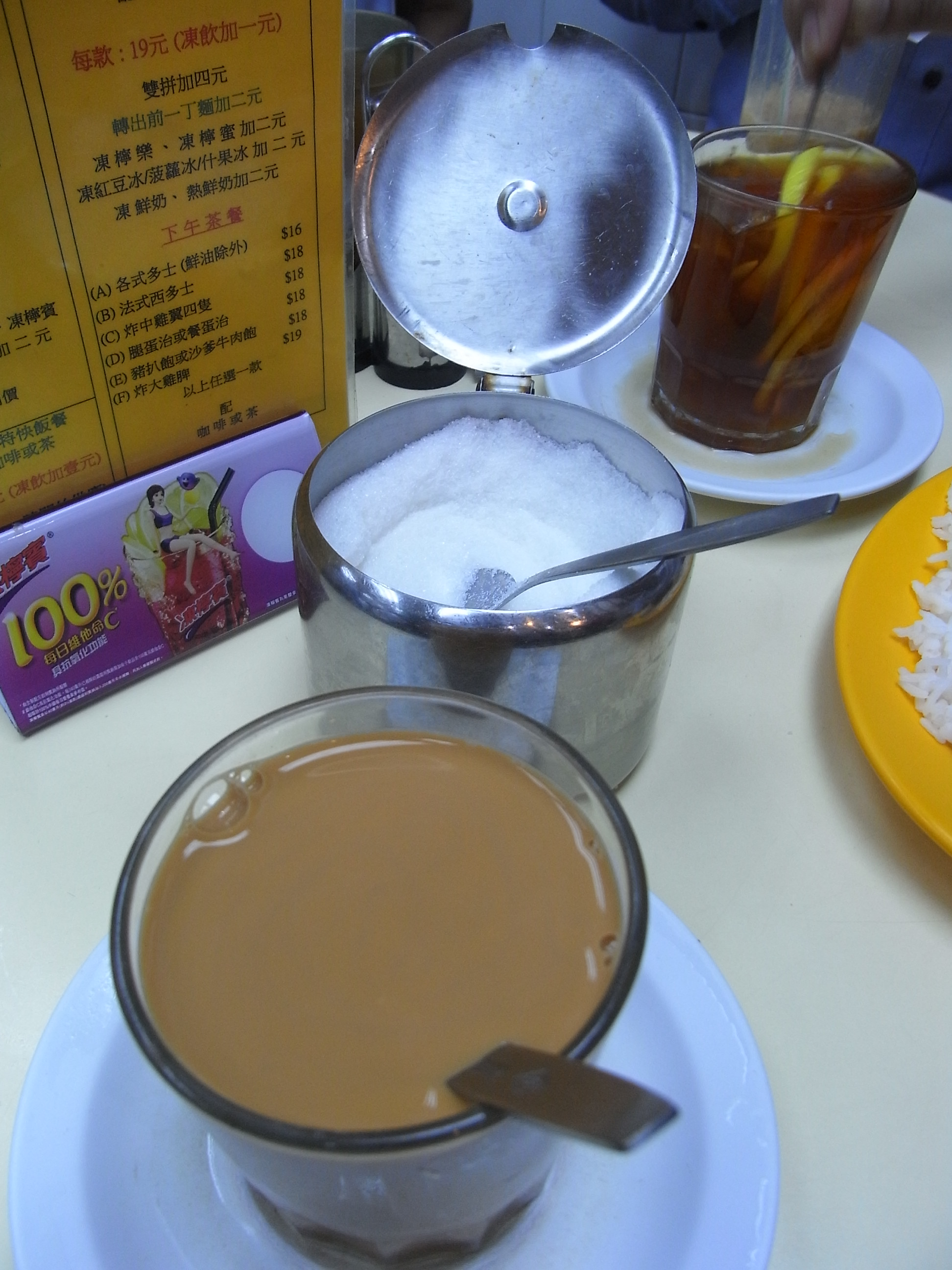 Milk Tea & sugars.